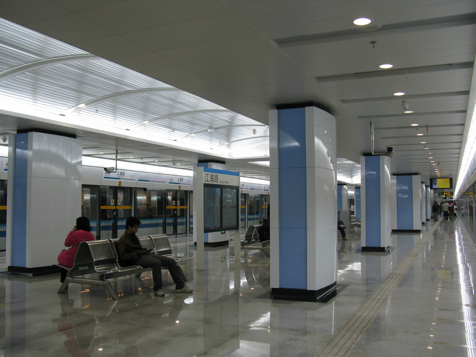 江浦路站 8号线月台 Line 8 Platform of Jiangpu Road Station